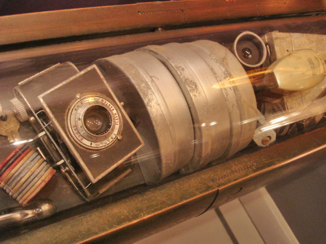 Westinghouse time capsule replica